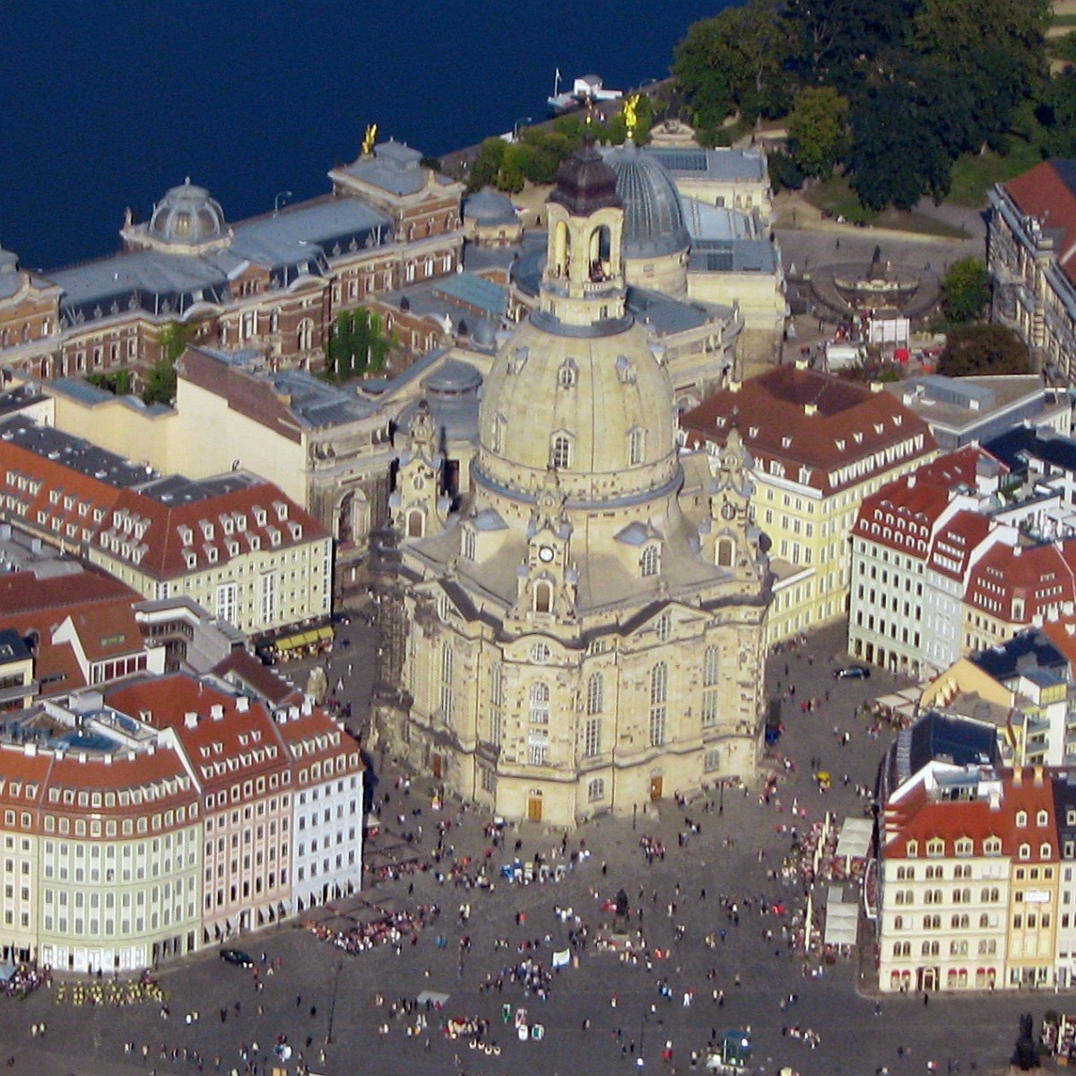 Aerial photo Dresden re-construction of the Church of Our Lady Frauenkirche photo 2008 Wolfgang Pehlemann Germany HSBD4382